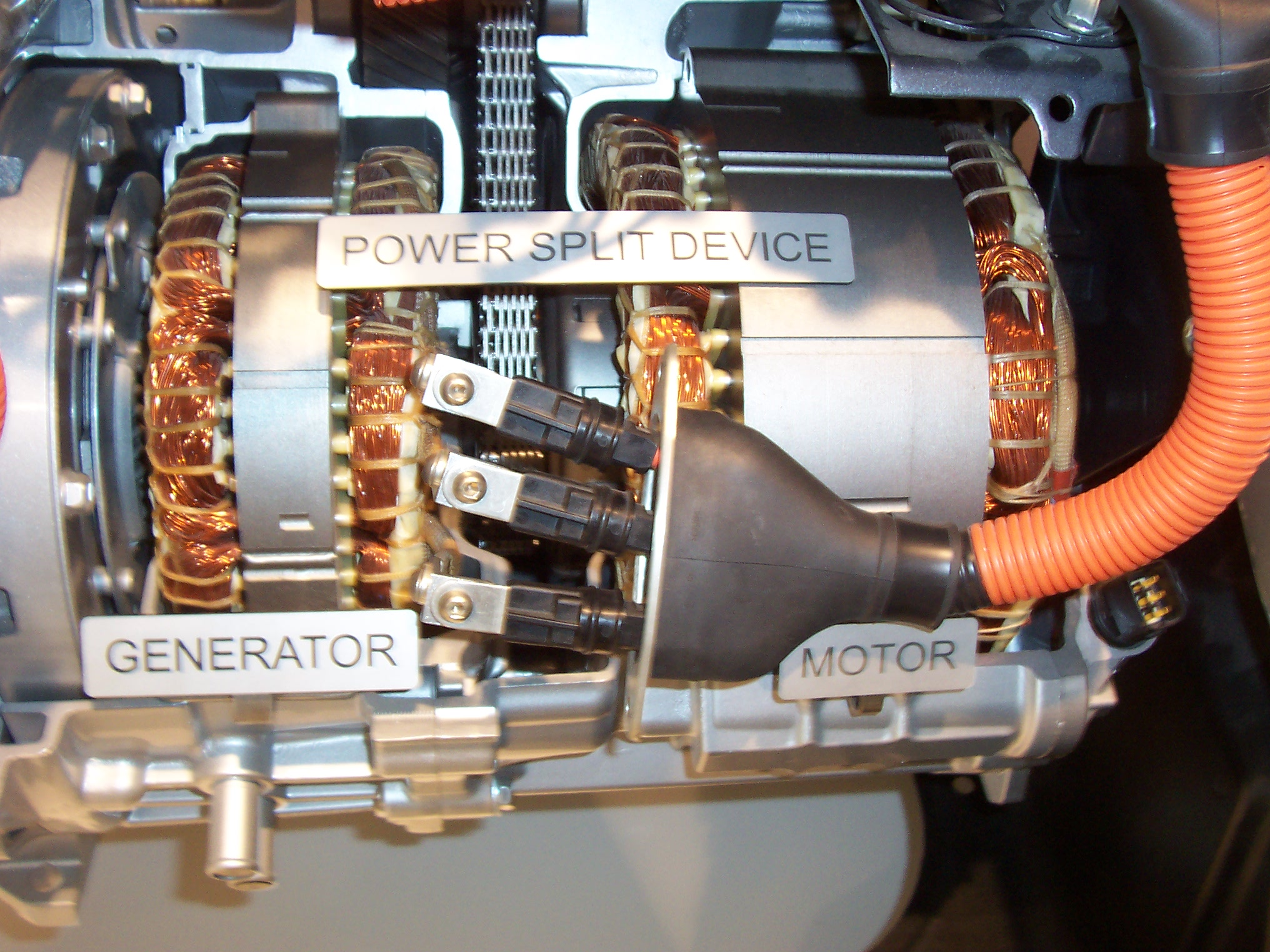 Toyota Showroom in Paris